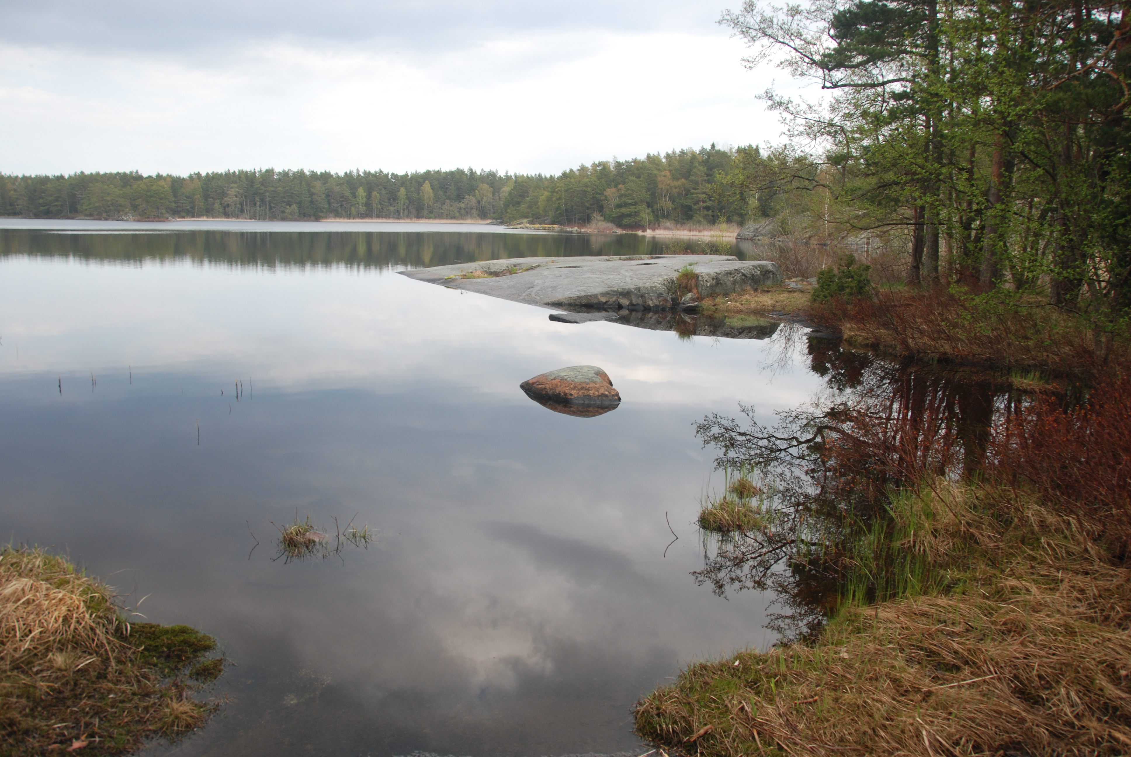 Freshwater lake on the island Möja, Stockholm archipelago